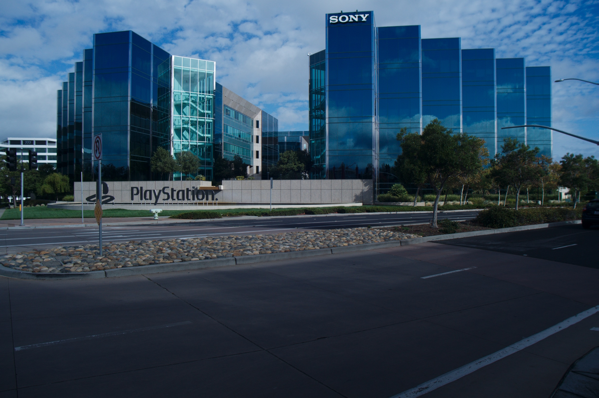 Sony Interactive Entertainment headquarters in San Mateo, California. A bit fuzzy on the right.